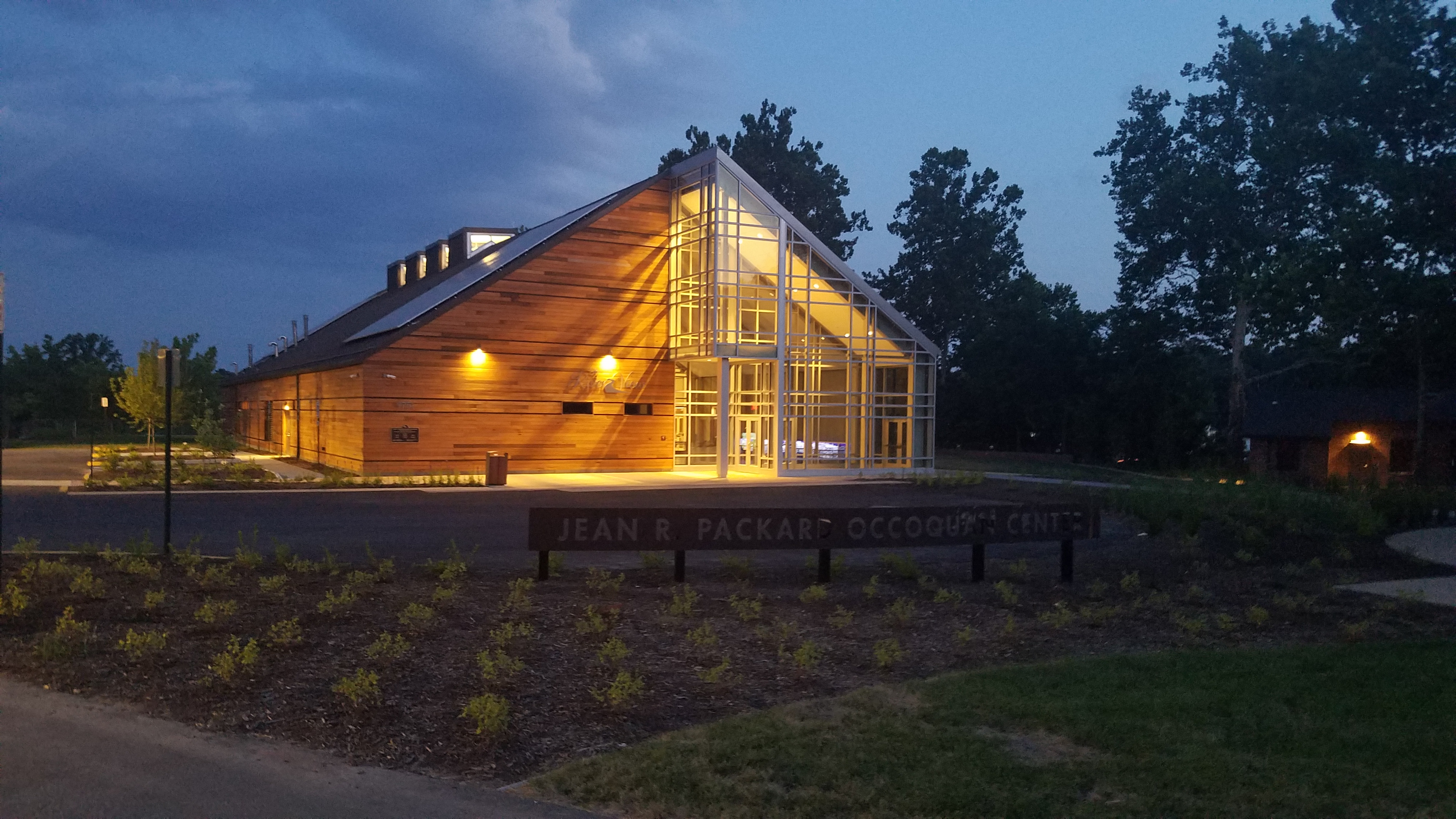 The River View at Occoquan Regional Park as night falls.